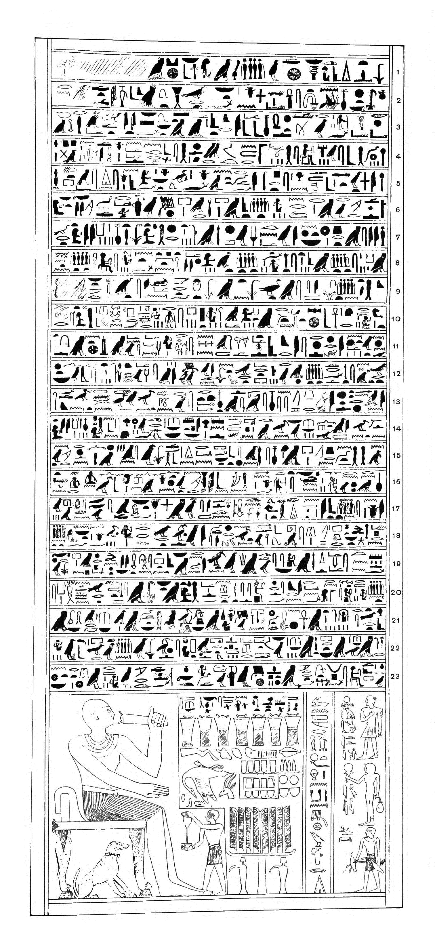 Funerary stela of the ancient Egyptian official Rediukhnum, from his tomb at Dendera (UE 6). Late reign of pharaoh Wahankh Intef II of the 11th Dynasty, First Intermediate Period. Rediukhnum was the steward of an otherwise unknown princess and queen Neferukayet, who has tentatively identified as the great royal wife of pharaoh Intef II and mother of pharaoh Intef III. Now in Cairo Museum (CG 20543).